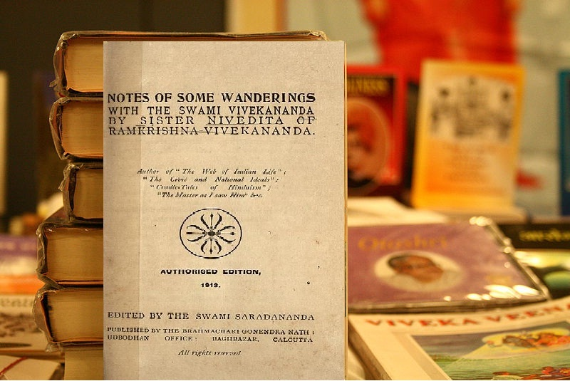 Spiritual significance of sufferings and books of Swami Vivekananda